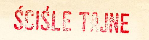 "Top Secret" marking on Polish Army document